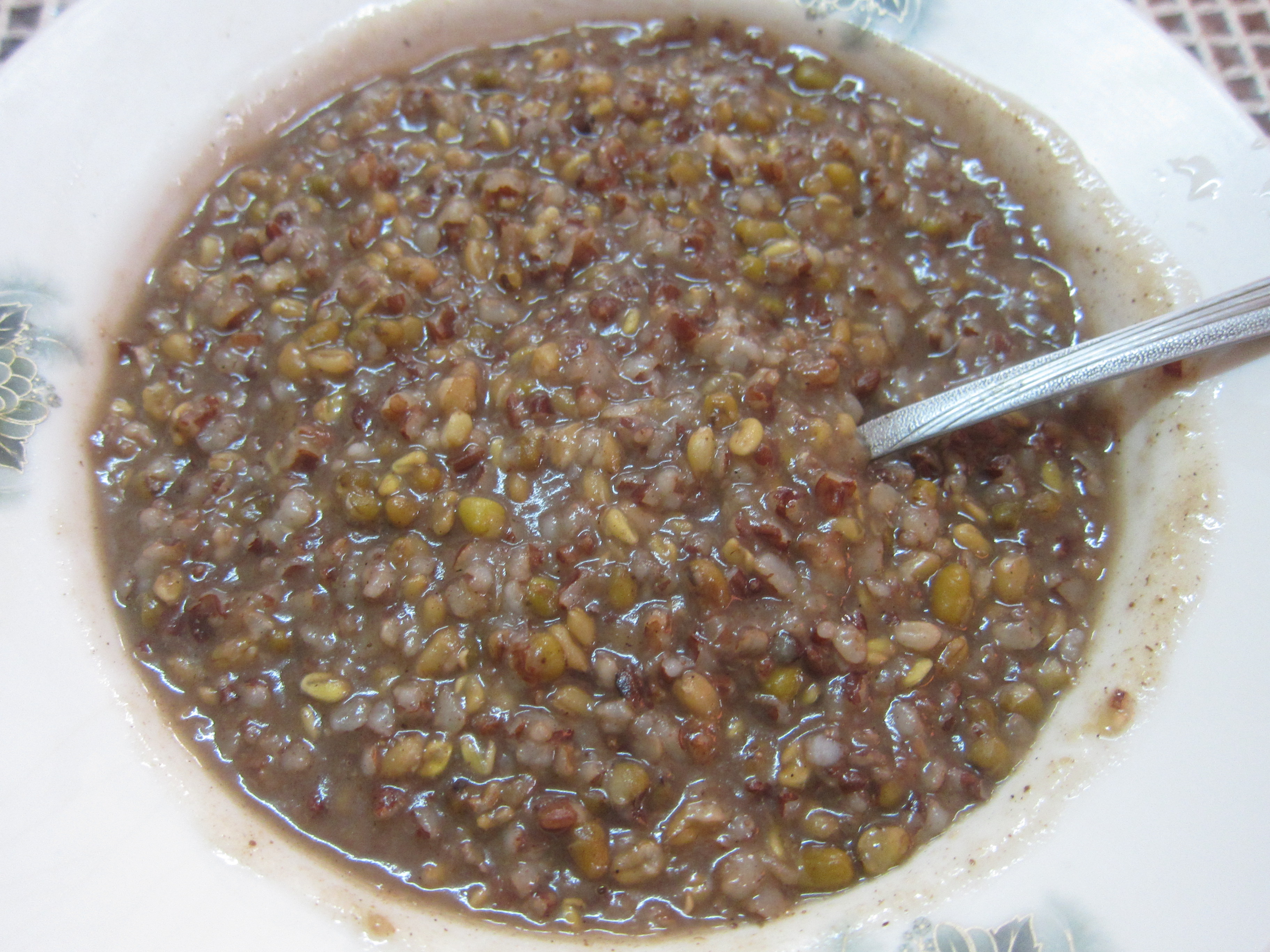 കർക്കിടക കഞ്ഞി - ഔഷധ കഞ്ഞി